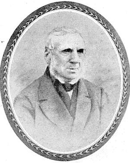 James FitzGibbon - Project Gutenberg eText 18025